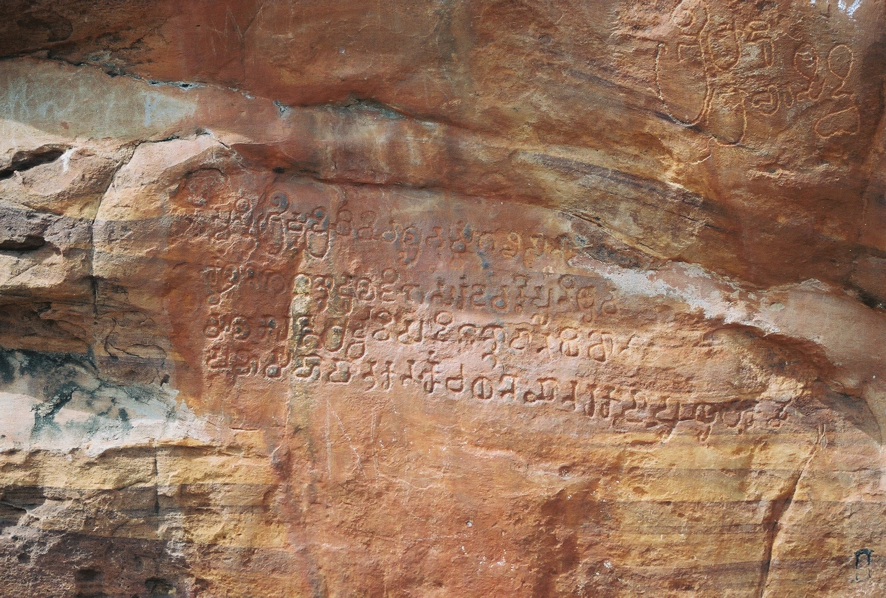 This old Kannada inscription dated 578 CE describes a land grant made by Badami Chalukya King Mangalesa. The inscription exists at cave no.3 in Badami, Karnataka, India. Ref source:Report on the Antiquities in the Bidar and Aurangabad Districts: In the Territories of His Highness the Nizam of Haidarabad, Being the Result of the Third Season's Operations of the Archæological Survey of Western India, 1875-76, pp119-120, by James Burgess, John Faithful Fleet